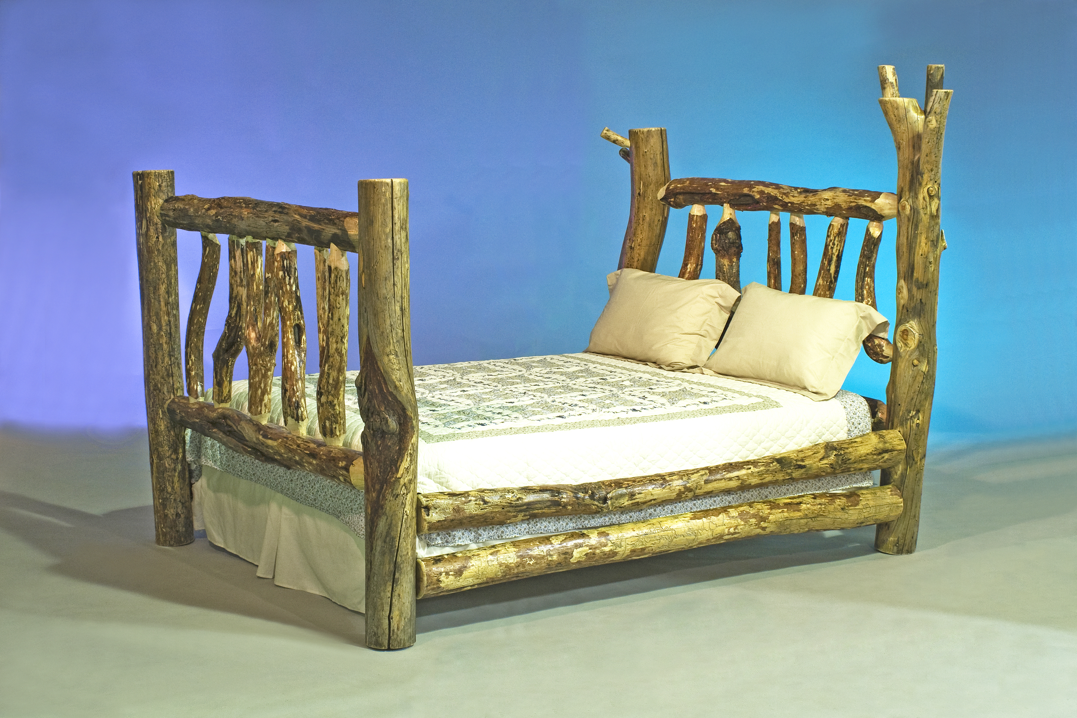 An example of log furniture, or rustic furniture. Queen Bed. Hand built from lodgepole pine.